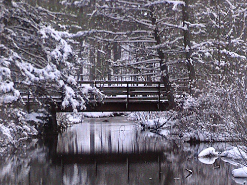 Bridge in the Cowans Gap State Park Family Cabin Historic District, located within Cowans Gap State Park in Fulton County, Pennsylvania, United States.